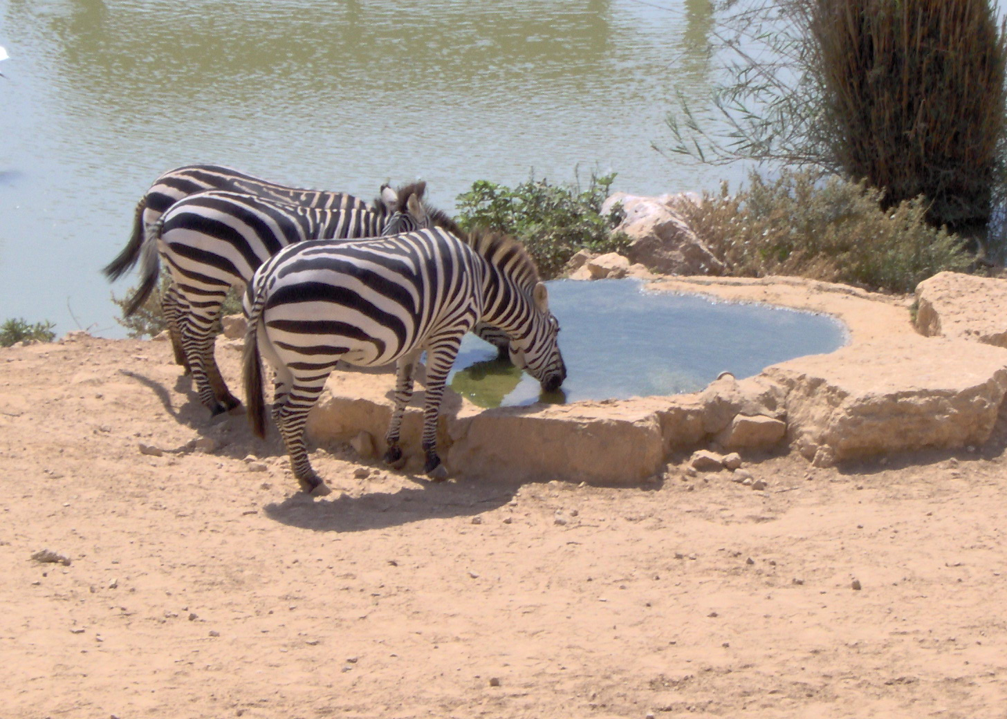 Zebras drinking water in the biblical zoo in Jerusalem.